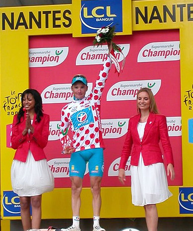 Thomas Voeckler puts on the polka dots jersey at the arrival of the Tour de France 2008's 3rd stage in Nantes